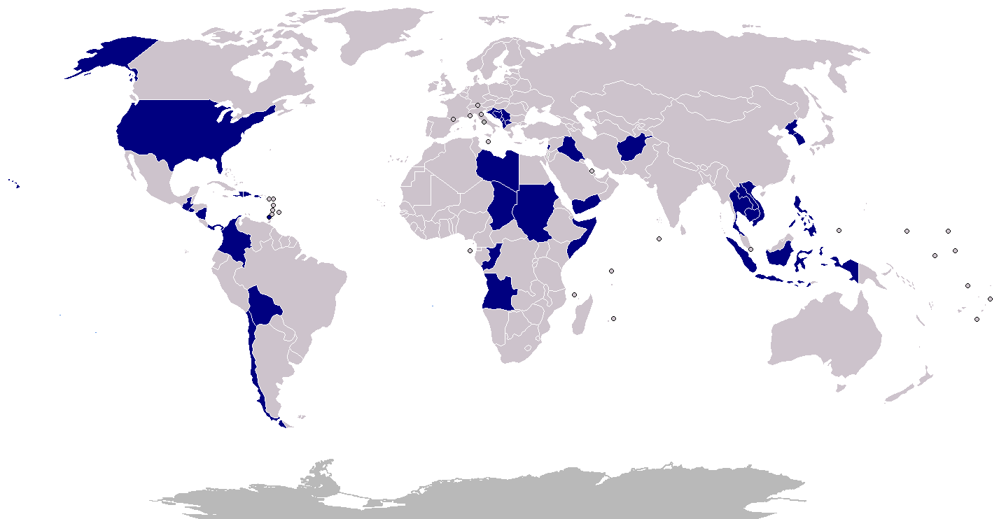 American military intervention since 1950